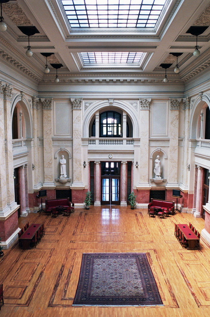 House of the National Assembly of Serbia